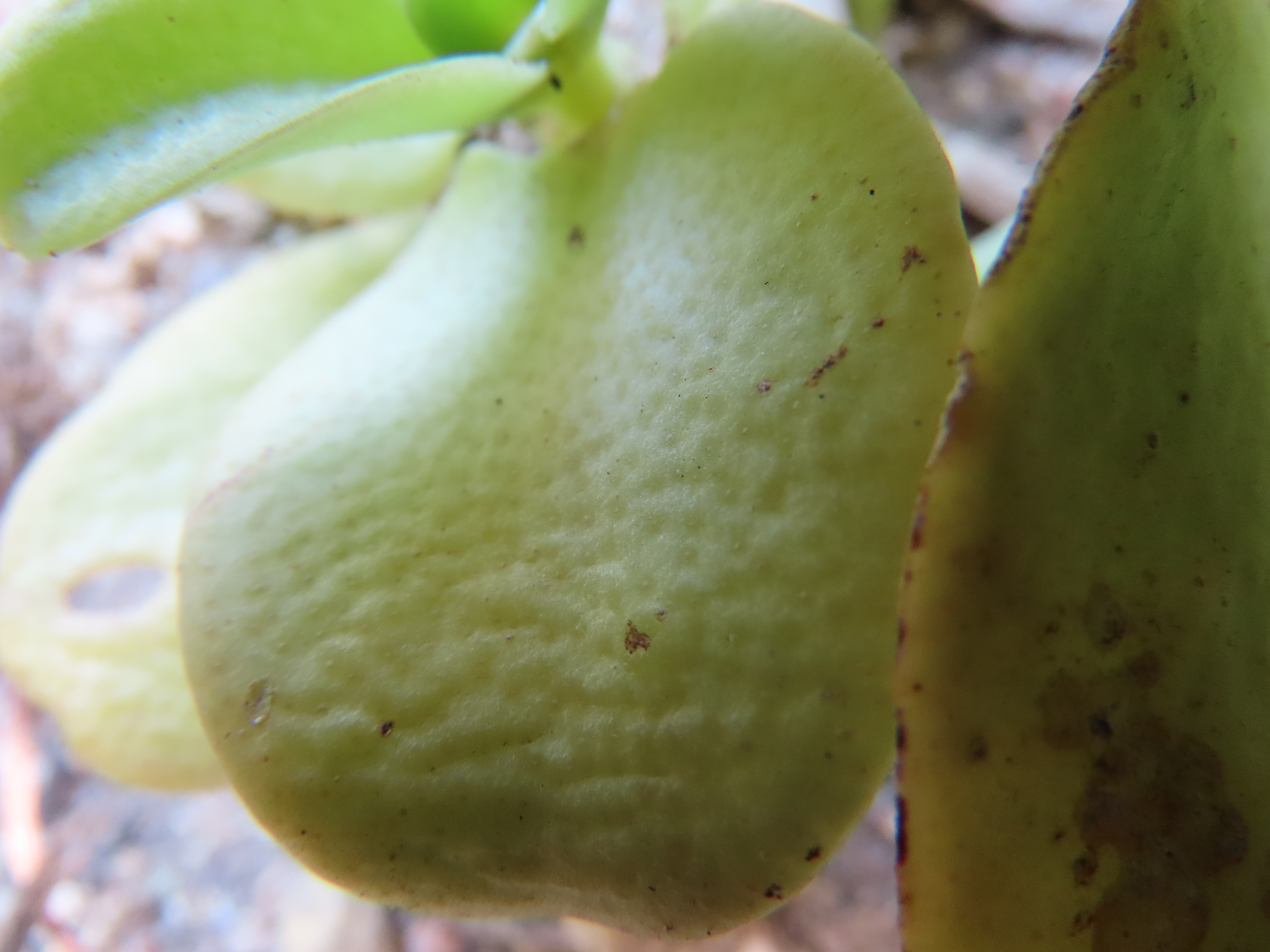 Rugulose leaf of unidentified Crassula species. The surface is slightly rugose, and the irregularities are small and might be overlooked at a superficial glance.